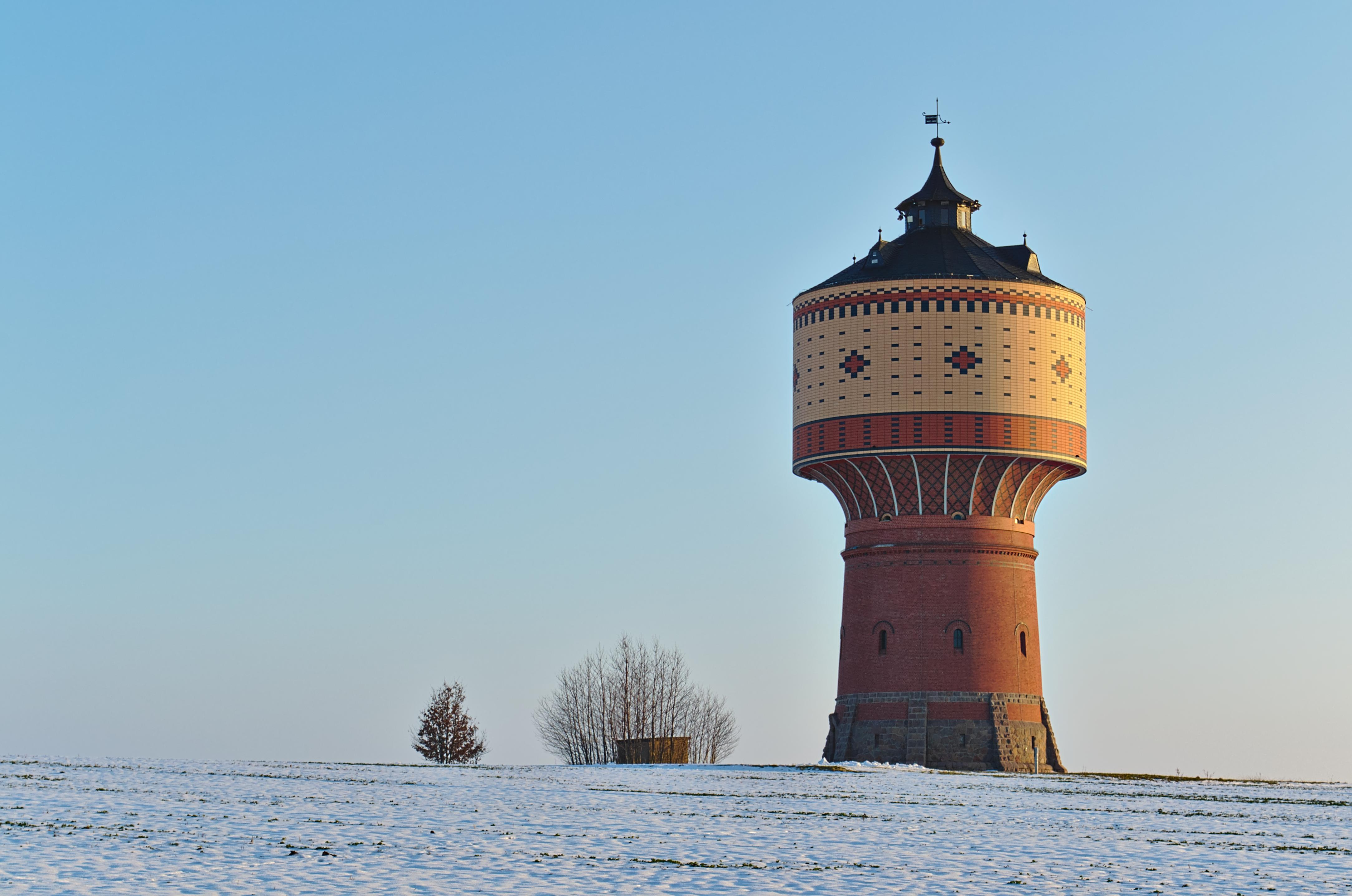 The still used water tower near the city of Mittweida, Saxony, Germany.